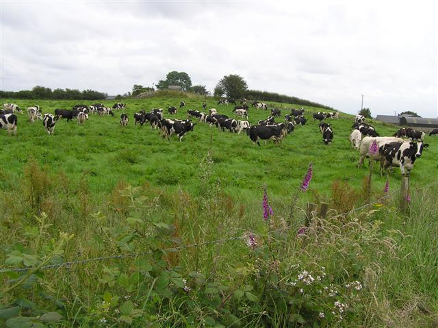 Muntober Townland Some money's worth of livestock in the field.